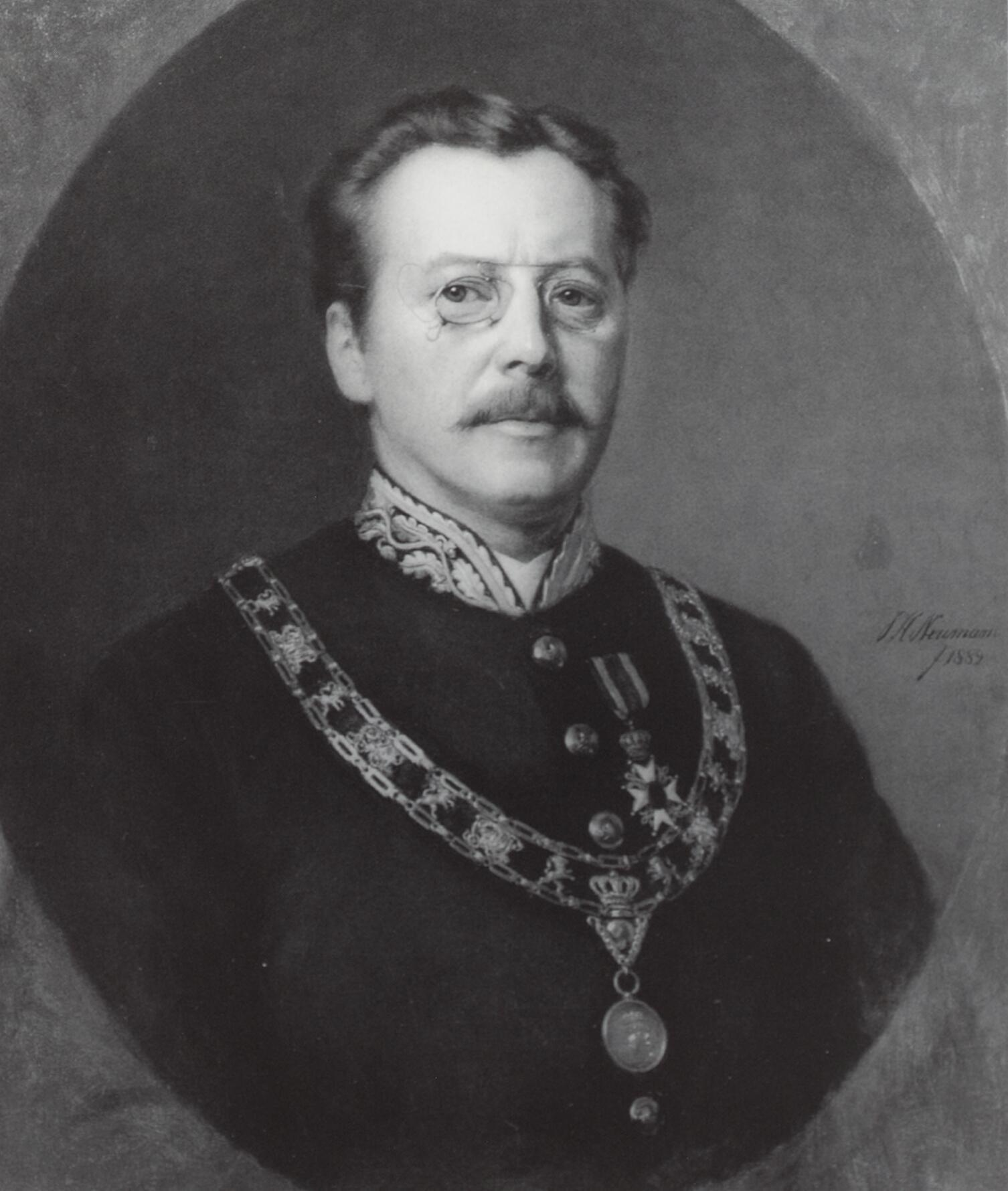 Portret van Petrus Lycklama à Nijeholt. Verblijfplaats schilderij onbekend. Geveild bij Glerum c.s., juni 1994